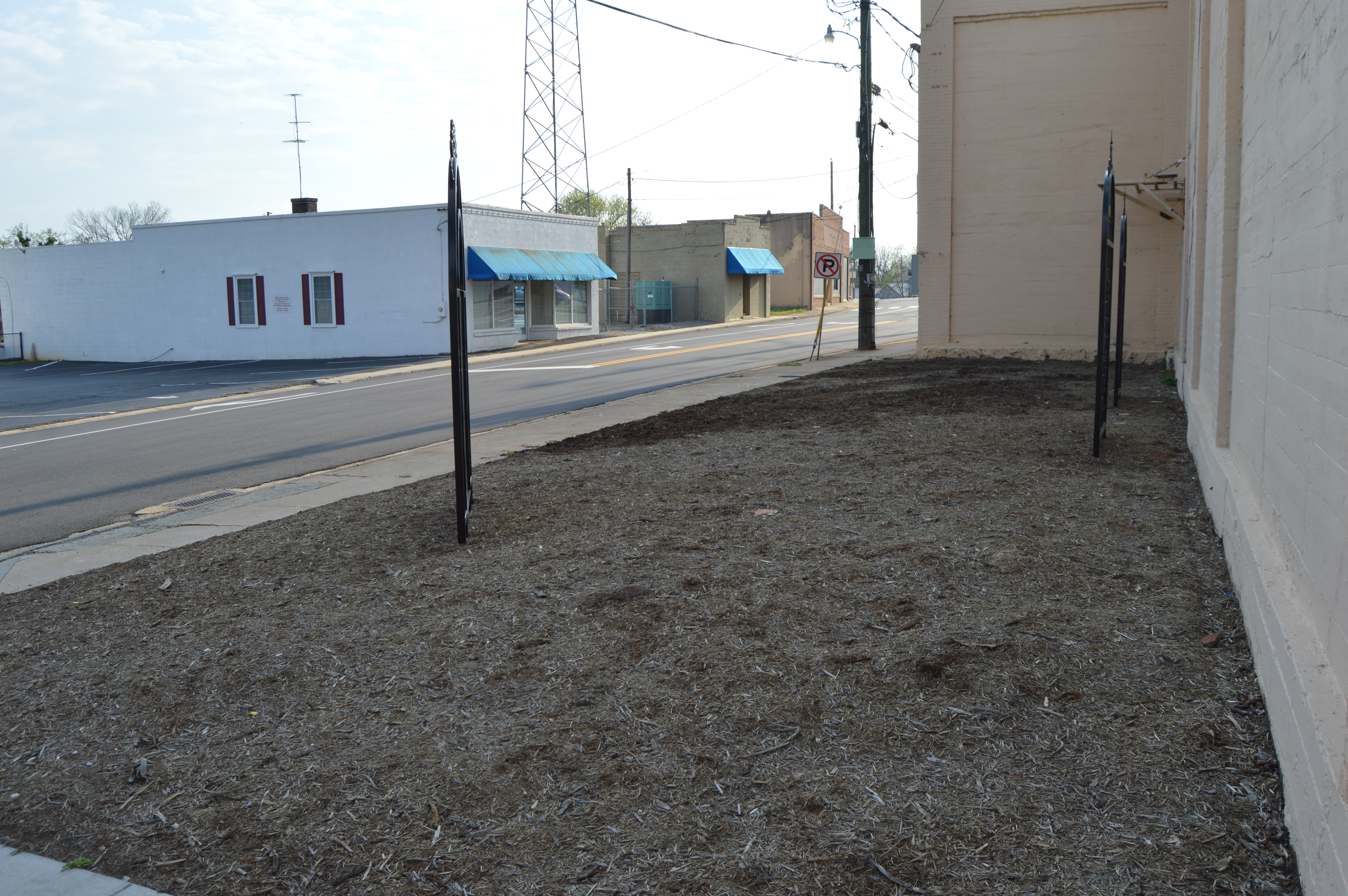 An empty lot on the northwestern corner of the intersection of Main and Depot Streets (State Route 57) in Chatham, Virginia, United States. This was formerly the site of Bill's Diner, which was listed on the National Register of Historic Places in 1996.